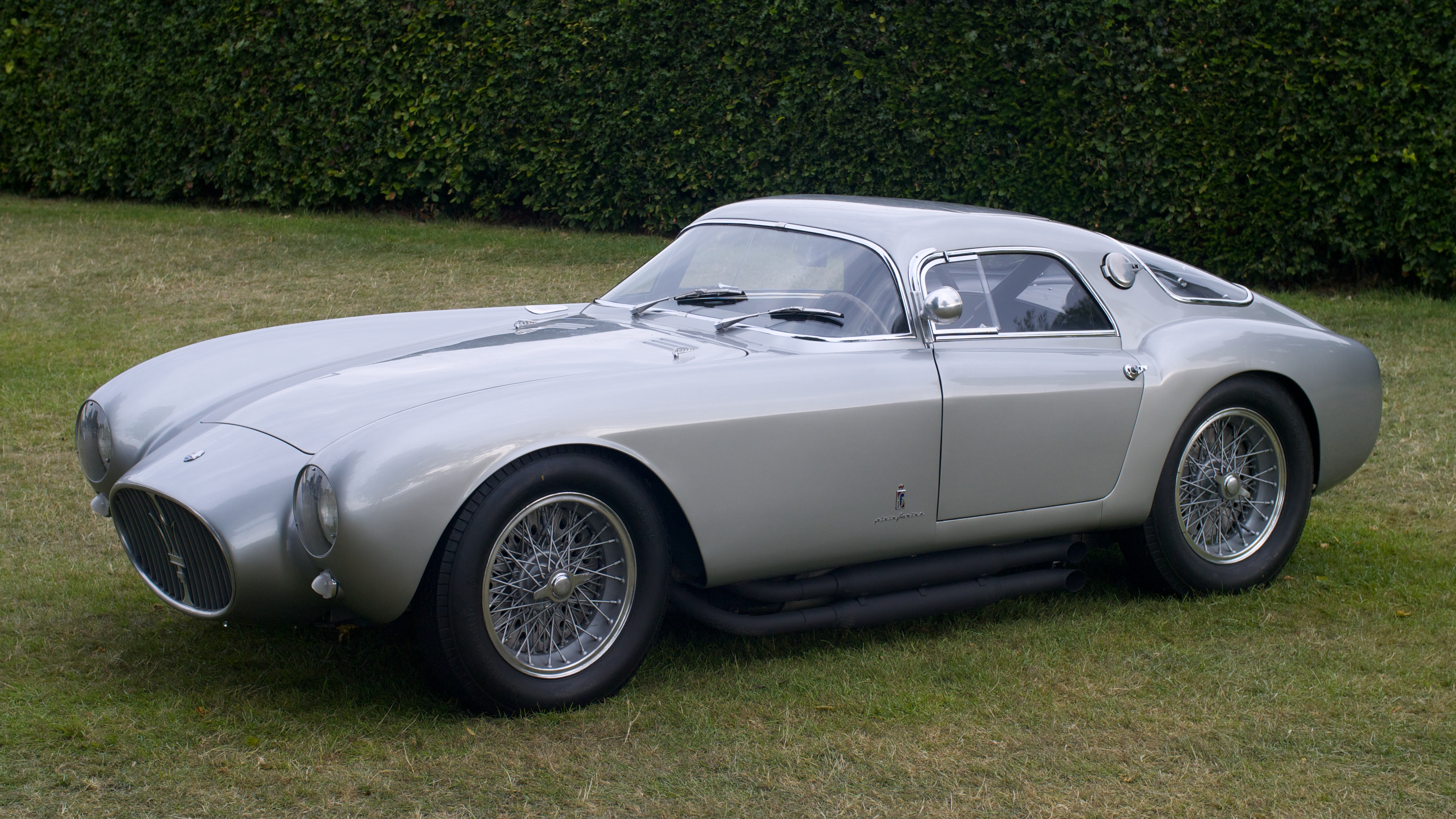 1953 Maserati A6 GCS Belinetta Pininfarina. Goodwood Festival of Speed 2014.